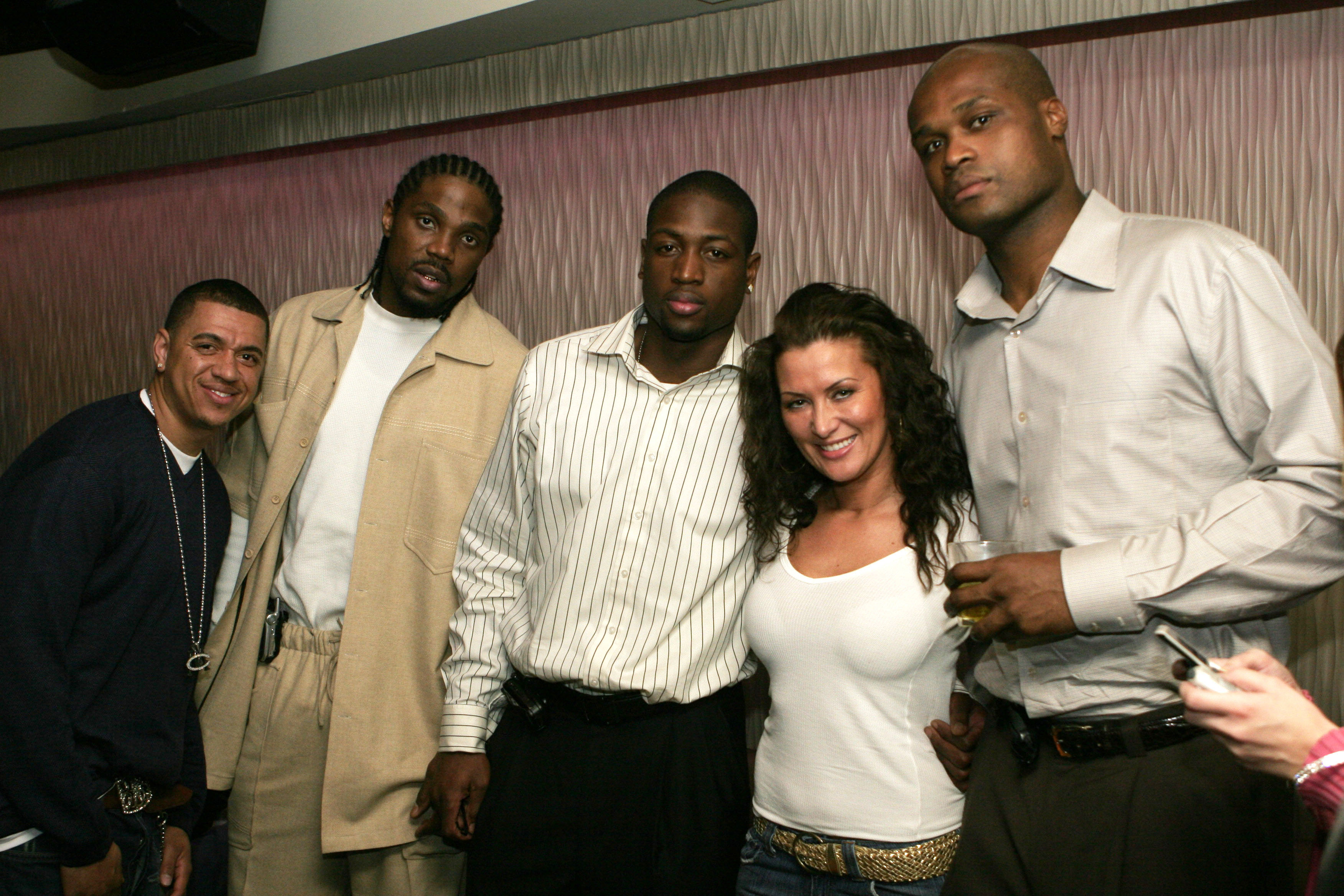 Udonis Haslem (second from left), Dwyane Wade (middle), and Antoine Walker (far right) of the Miami Heat.